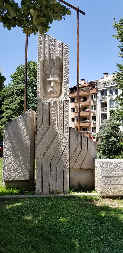 Monument to Kocho Chestimenski Plovdiv